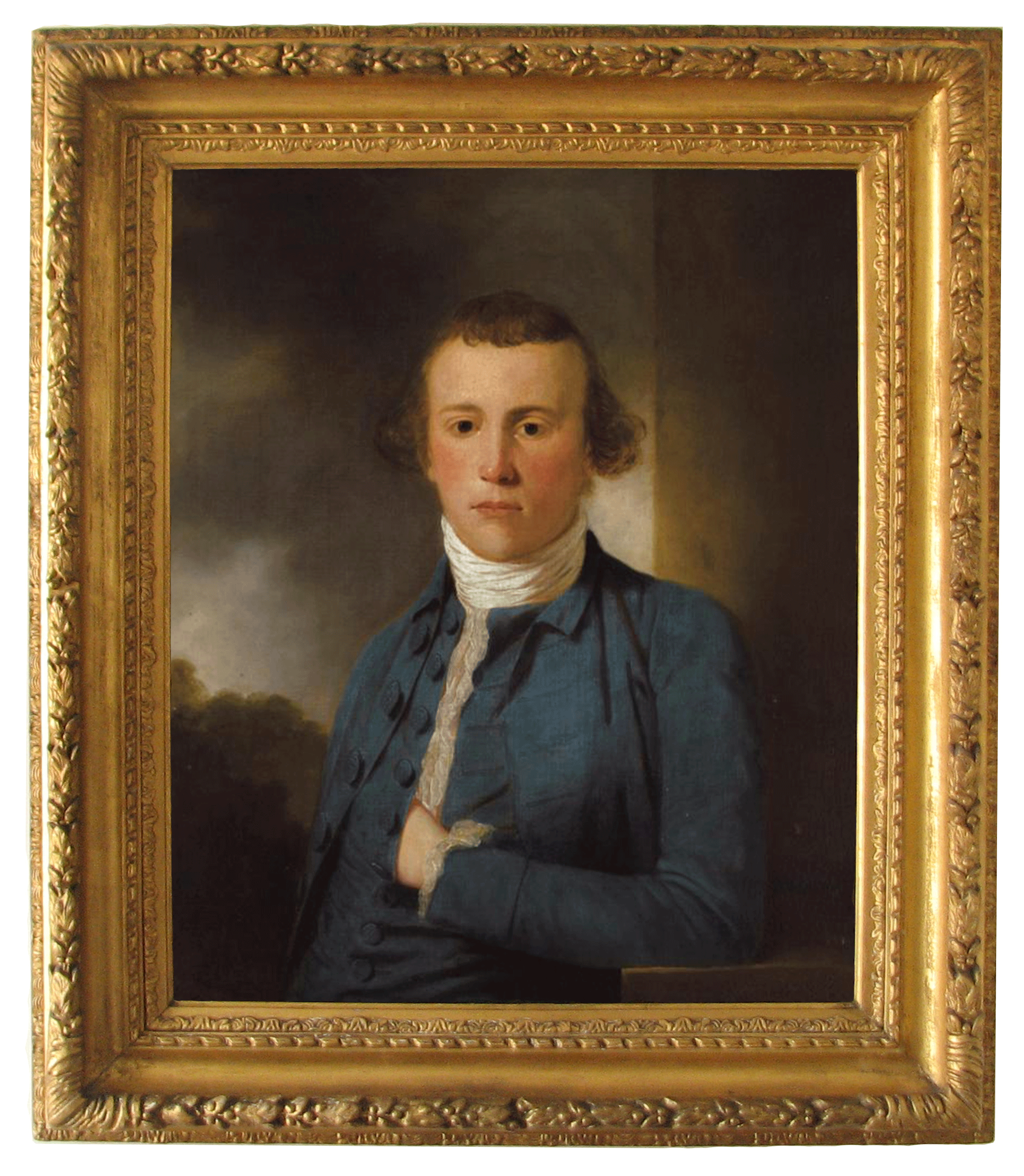 Gilt-framed portrait of Peter Moore 'as a young man' by Tilly Kettle, oil on canvas, circa 1775 (as so attributed in 2007 by the art experts in British Paintings 1500-1850 at Sotheby's, London). It was previously attributed to Thomas Gainsborough (1727-1788) - probably when it was in the possession of Colonel Charles Thomas John Moore (1827-1900), of Frampton Hall, Lincolnshire. He was the grandson of Edward Moore of Stockwell House, Surrey - eldest brother of Peter Moore. The portrait descended in this line of the family to the beneficiaries of Mrs Valerie Tunnard-Moore, widow of Thomas Charles Poynder Tunnard-Moore (1904-1984), who was a grandson of Colonel C.T.J. Moore, of Frampton Hall. She died in October 2005. It was then sold by auction at Sotheby's (6 June, 2007) to Robin Askew of Toronto, Canada - in whose possession it now remains. Robin Askew's mother was Joyce Mary née Moore, a direct descendant of Peter Moore.